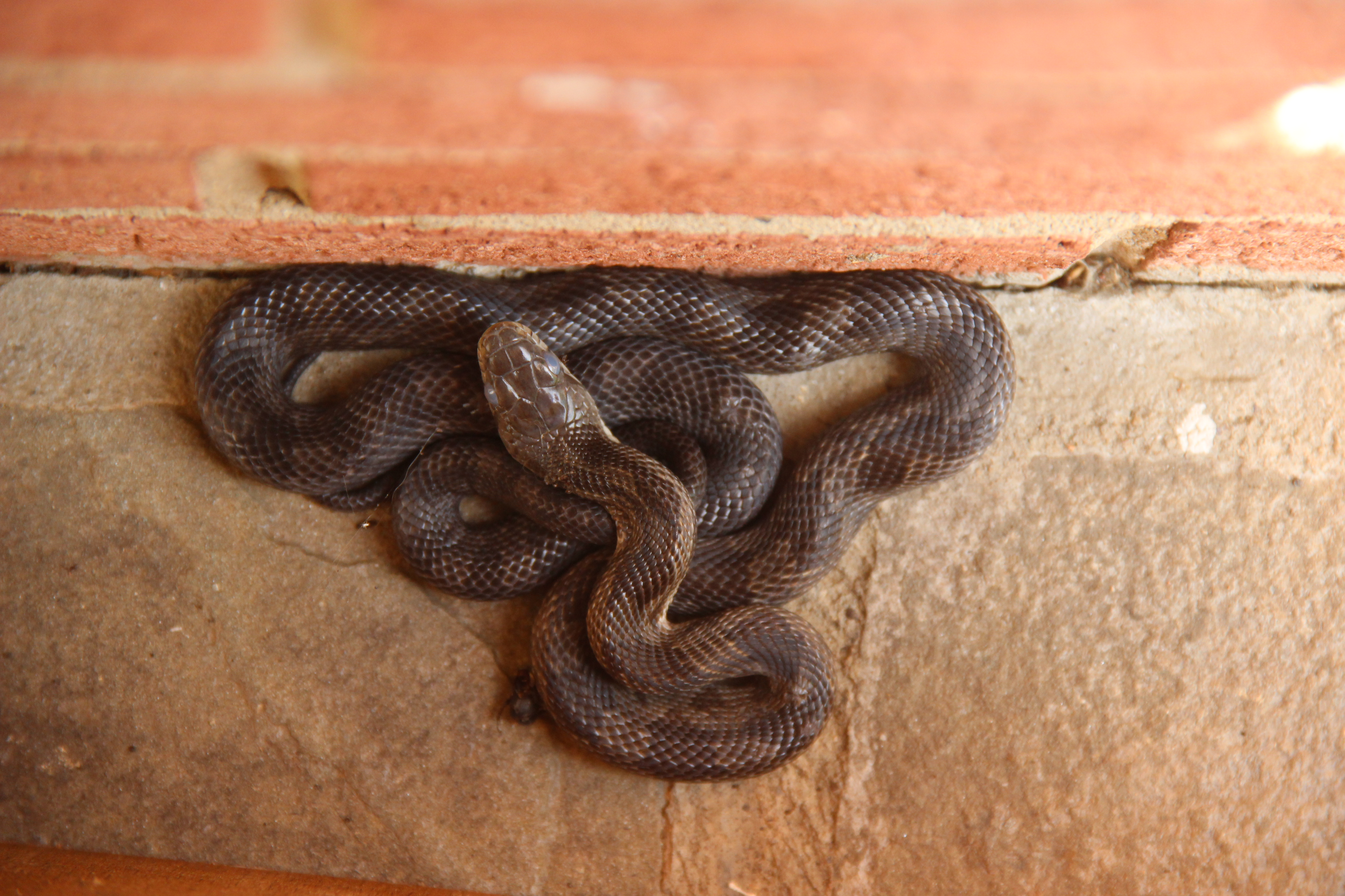 Photo of a juvenile Eastern Ratsnake (Pantherophis alleghaniensis). The Eastern Ratsnake is the most commonly reported snake by landowners in Maryland. It is found throughout the state. Juveniles have strongly patterned backs of gray and brown blotches on pale grey.